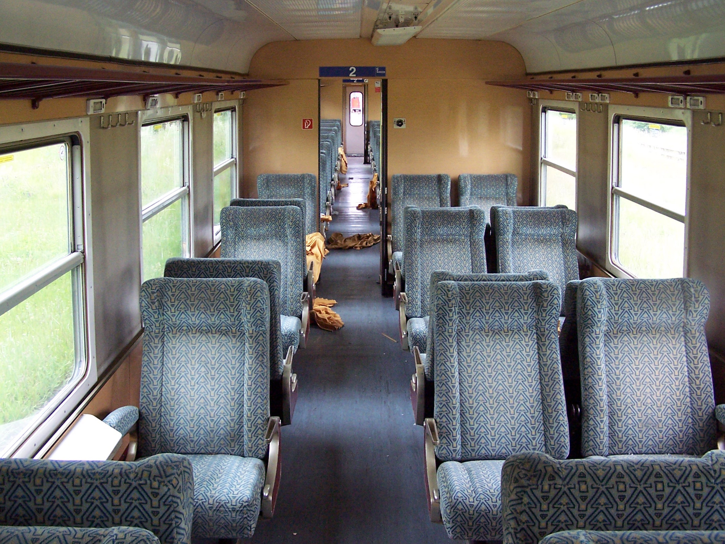 Interior of a ÖBB 7010-open coach